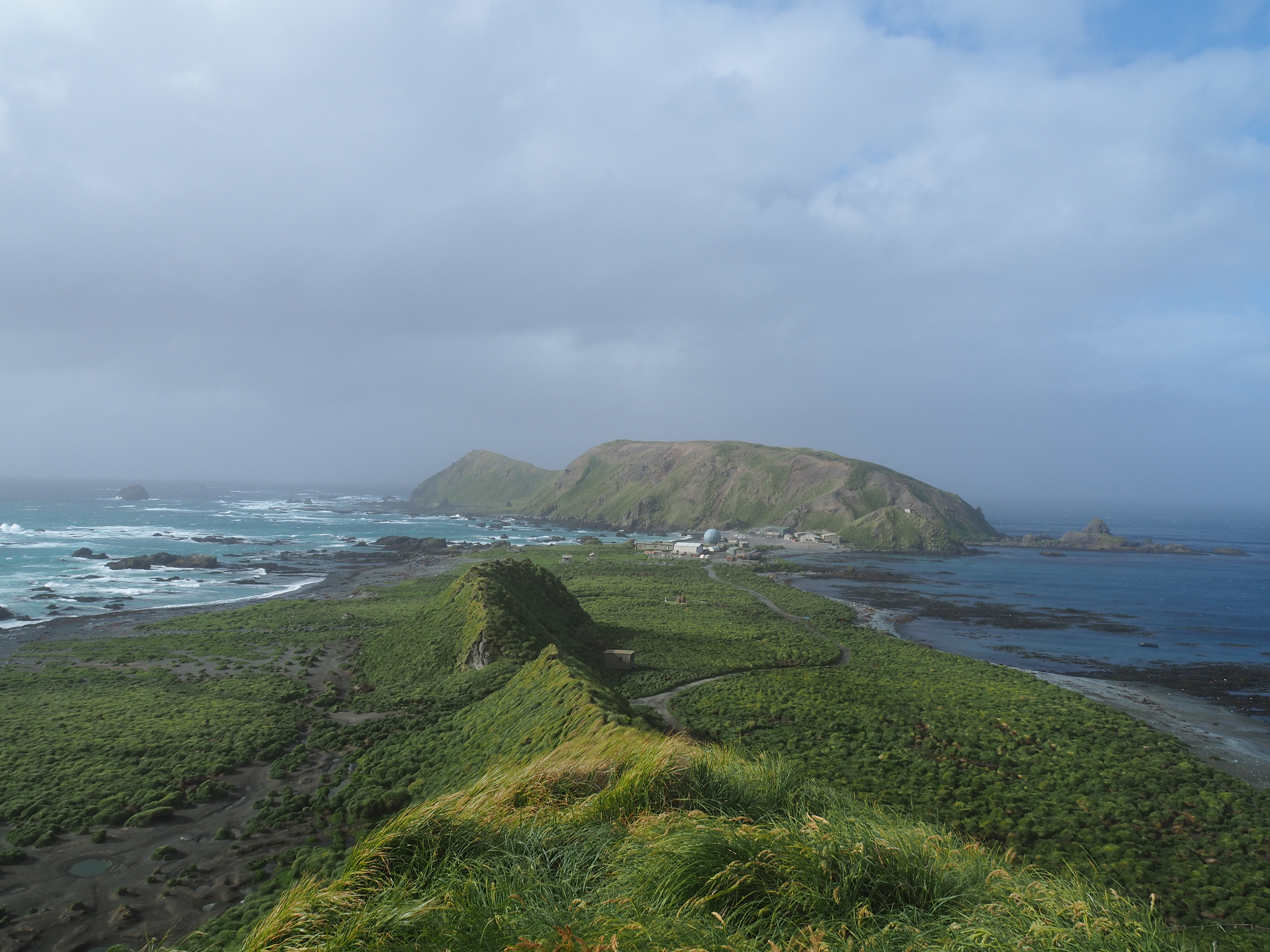 Looking north at the isthmus on Macquarie Island.